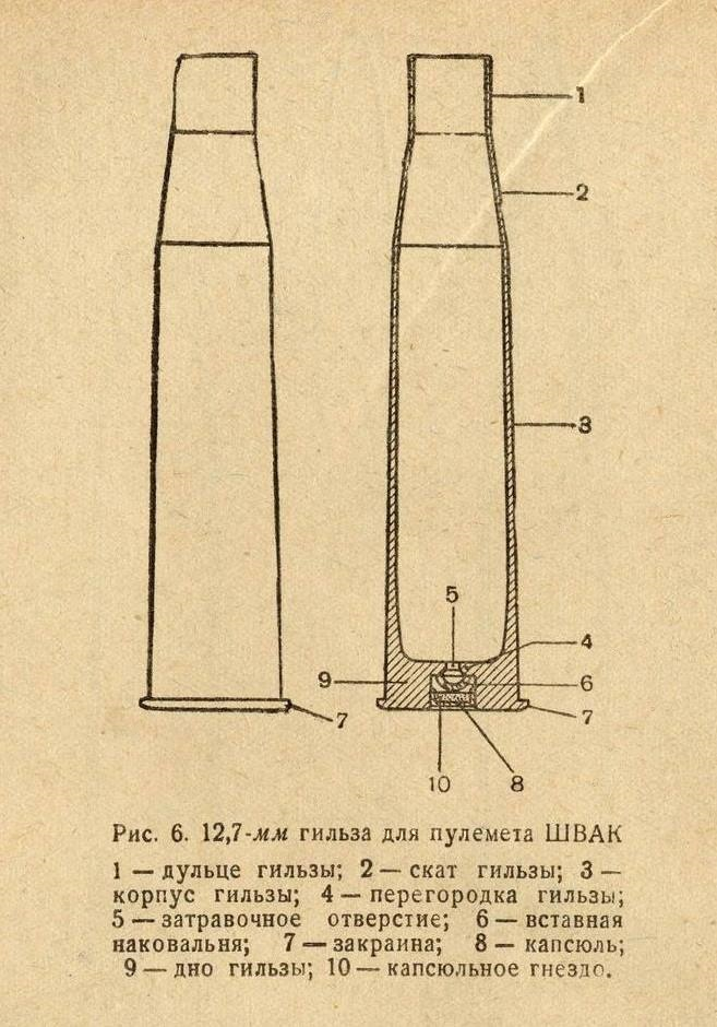 12,7x108R ShVAK MG cartridges case drawing.